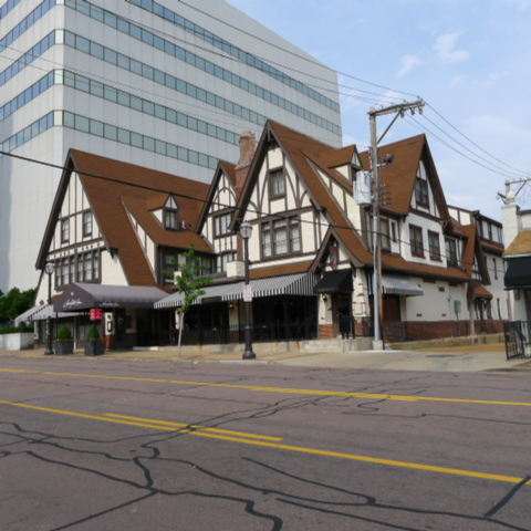 The Seven Gables Building located in Clayton, Missouri was developed by Hawke and Comfort (later called Meier and Comfort), was designed by Daniel Mullen, and is now on the National Register of Historic Places.